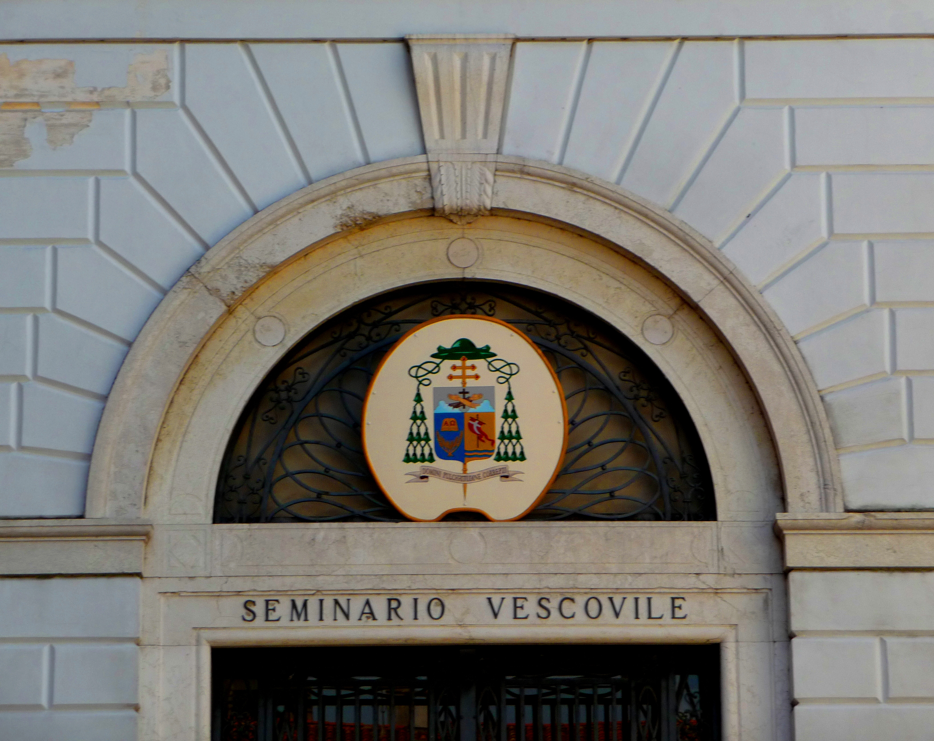 Seminario Vescovile in Treviso (IT)